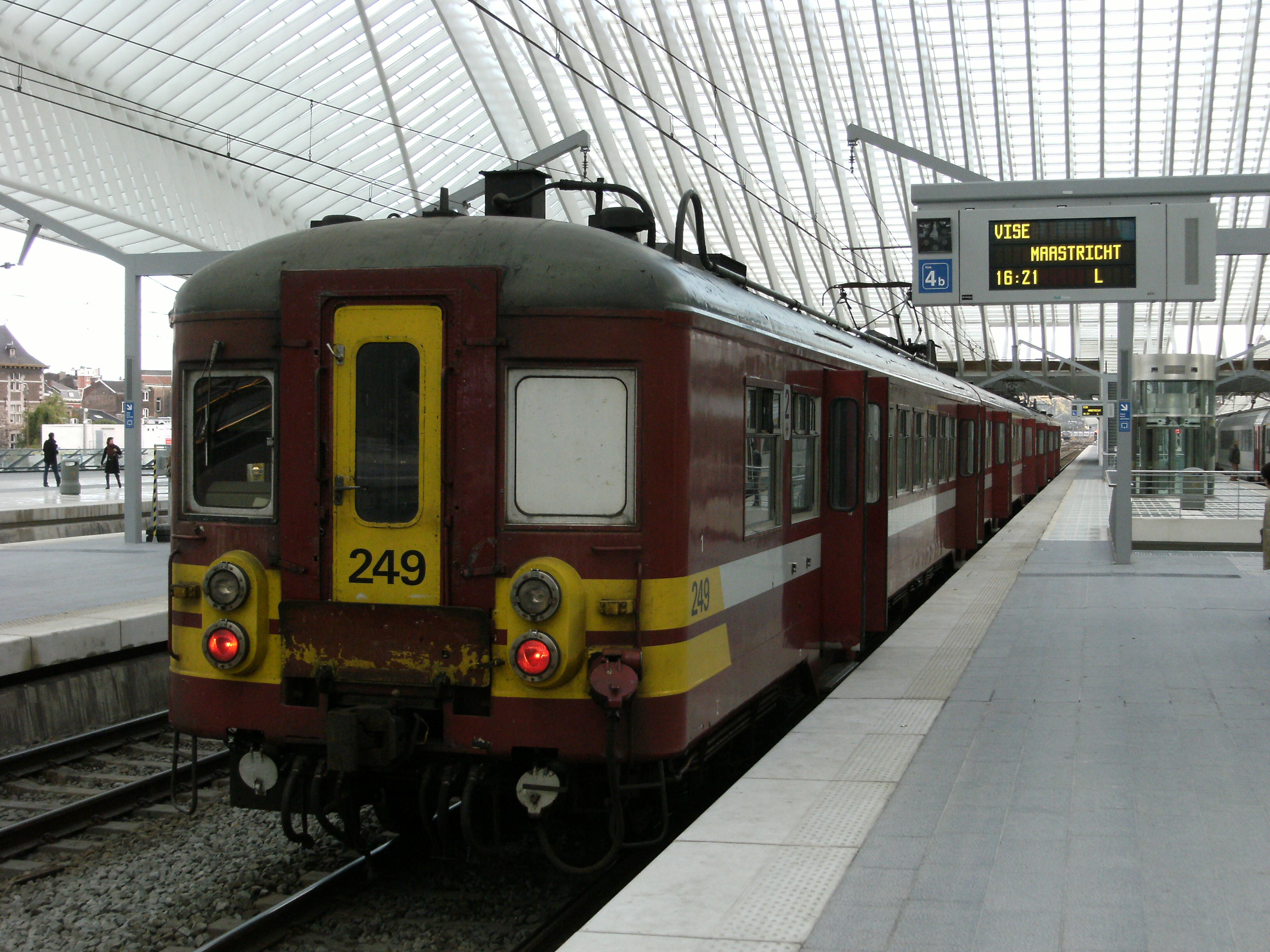 Train at Guillemins gare, train station in Liege, Belgium. Architect Calatrava.